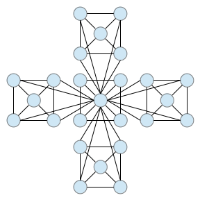 This is an example of a hierarchical network model. In such models, all nodes within the smallest clusters are fully interconnected and as we replicate these clusters, the peripherial nodes of the replicas get connected to the central node of the original cluster.